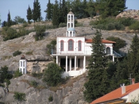 Church of Agios Dimitrios and Agia Zoni in Sidirokastro, Serres, Greece